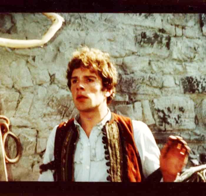 Piro Qirjo as Gjorg Berisha in a film still from the Albanian movie Të paftuarit